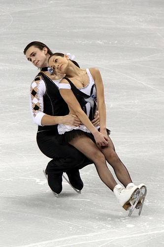 Ksenia Stolbova / Fedor Klimov at the 2010 Skate America